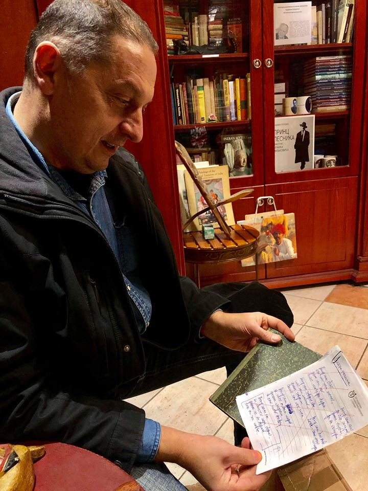 Miloš Janković in the Society for Culture, Art and International Cooperation Adligat (Museum of Book and Travel) in Belgrade, Serbia. Српски (ћирилица): Милош Јанковић у Удружењу за културу, уметност и међународну сарадњу Адлигат (у Музеју књиге и путовања) у Београду.